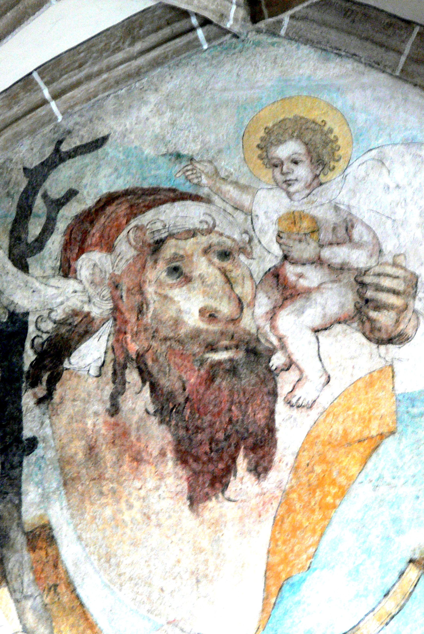 Gunzenhausen ( Bavaria ). Saint Mary parish church: Right aile - Fresco of Saint Christopher ( 1498 ).